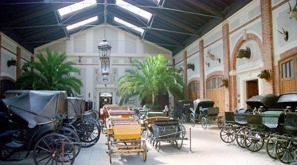 Lubomirski Castle in Łancut in Poland